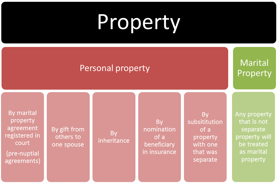 Classification of property in Swedish divorce laws